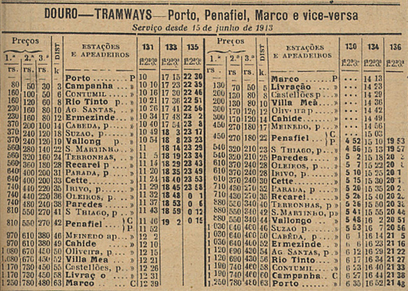 Timetable of the tramways (suburban trains) from Porto (S. Bento) and Marco de Canaveses, in northern Portugal, on the 15th June 1913. This image was published on the Guia Official dos Caminhos de Ferro de Portugal No. 168, of October 1913, and scanned by the Biblioteca Nacional de Portugal.